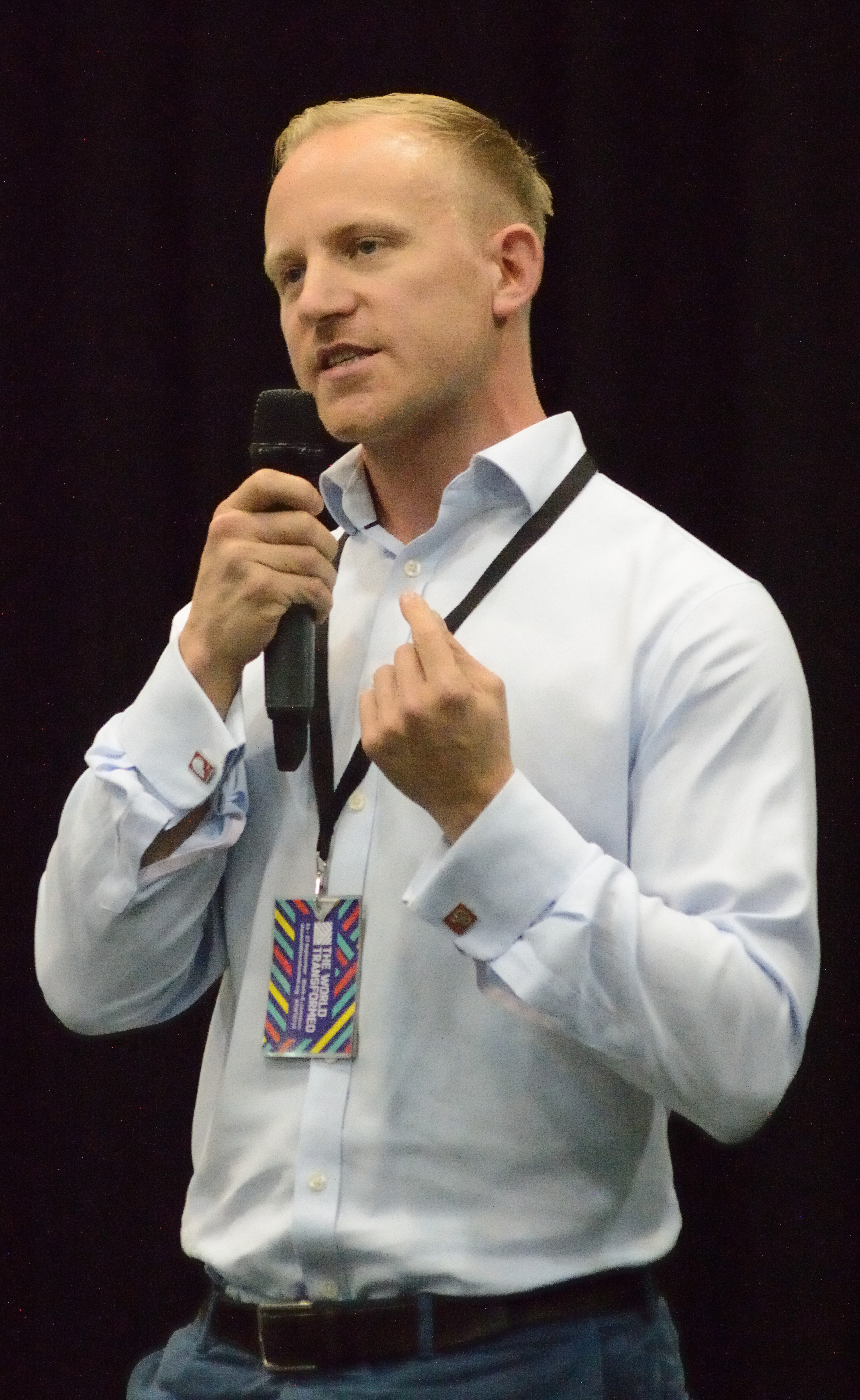 Sam Tarry at the 2016 Labour Party Conference in Liverpool, speaking at a fringe meeting organised by Labourlist.